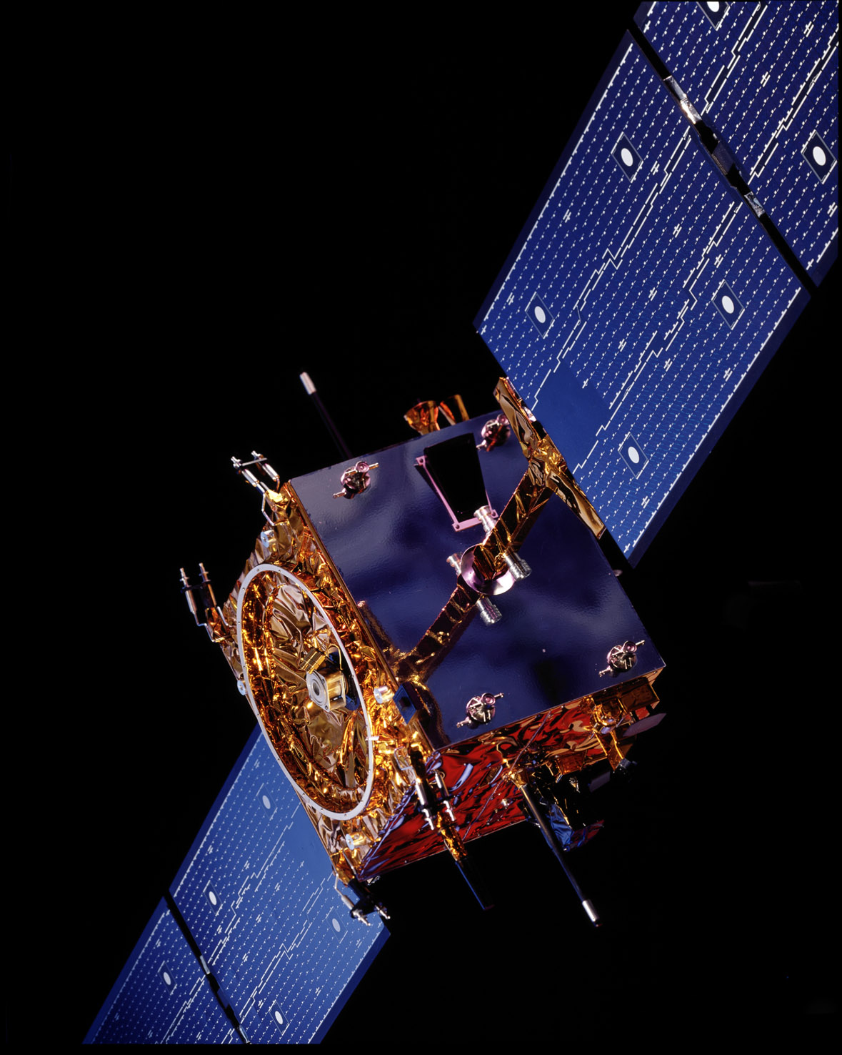 The European Space Agency's Science Programme encompasses, in addition to the ambitious 'Cornerstone' and medium-sized missions, recently dubbed 'flexi-missions', small relatively low-cost missions. These have been given the generic name SMART - 'Small Missions for Advanced Research in Technology'. Their purpose is to test new technologies that will eventually be used on bigger projects. SMART-1 is the first in this programme. Its primary objective is to flight test Solar Electric Primary Propulsion as the key technology for future Cornerstones in a mission representative of a deep-space one. ESA's projected BepiColombo mission to explore the planet Mercury could be the first to benefit from SMART-1's demonstration of electric propulsion. Another objective is to test new technologies for spacecraft and instruments. The planetary objective selected for the SMART-1 mission is to orbit the Moon for a nominal period of six months. It is the first time that Europe sends a spacecraft to the Moon. The project aims to have the spacecraft ready early in 2003 for launch as an Ariane-5 auxiliary payload. In addition to the use of solar electric primary propulsion to reach Earth's natural satellite, the spacecraft will carry out a complete programme of scientific observations in lunar orbit.